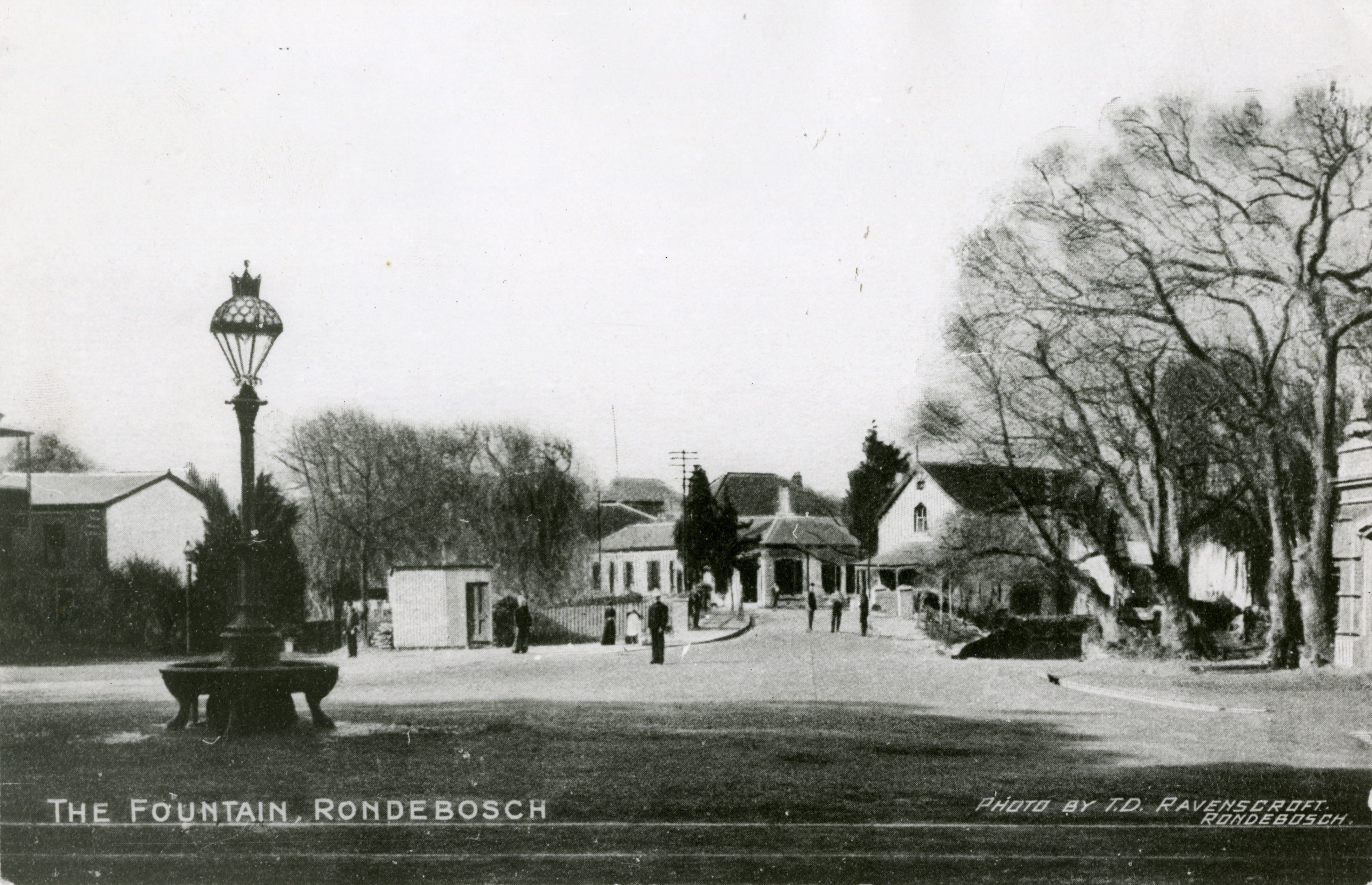 Rondebosch Fountain photographed by T D Ravenscroft who opened a studio in Rondebosch in about 1900.